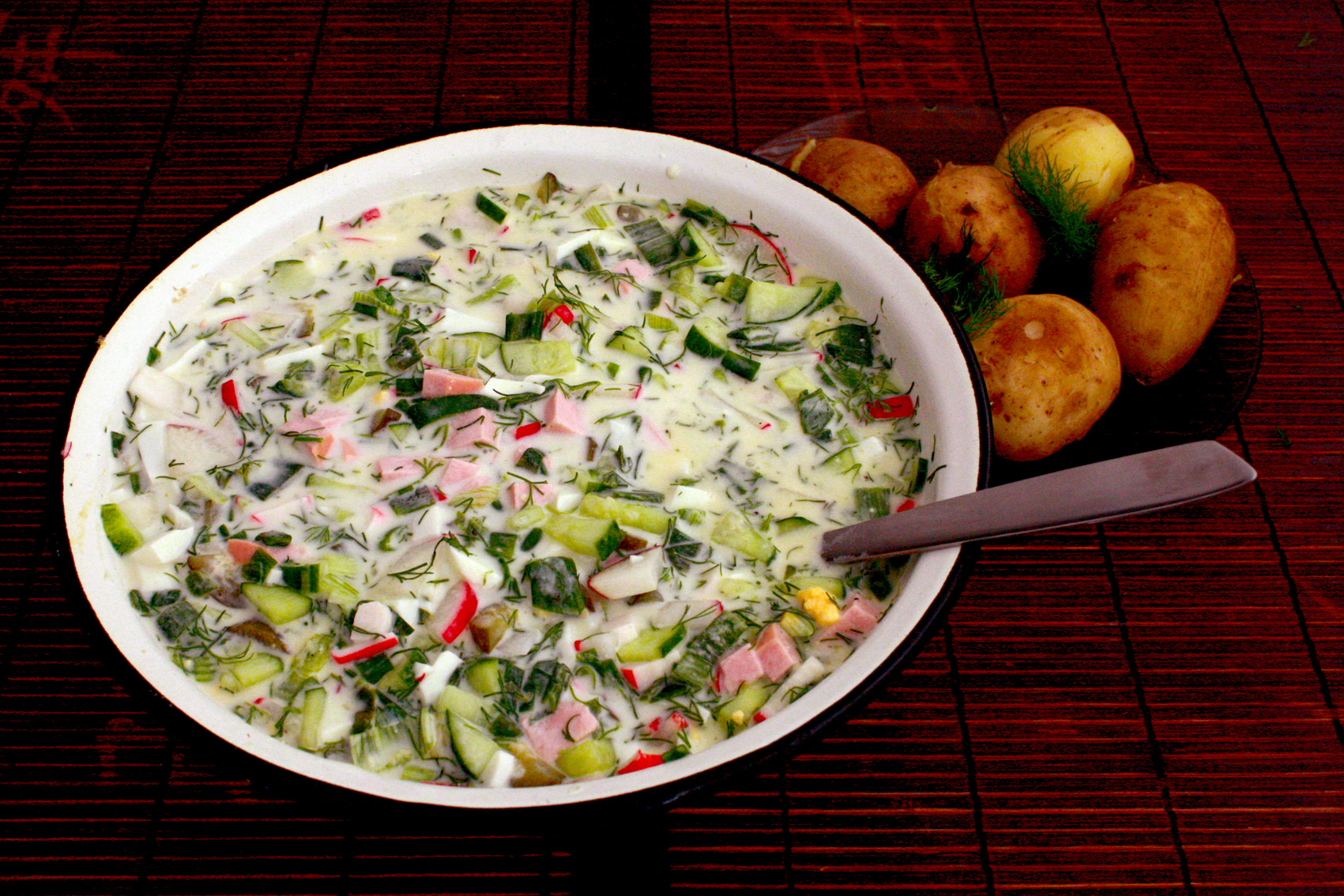 Okroshka cold soup, a favourite dish of Ukrainian cuisine, made on the basis of the Ayran, Kyiv, Ukraine